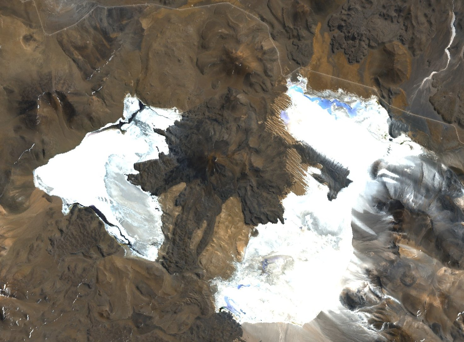 Satellite image of Caichinque, Chile. Cropped from original. Granule ID: SC:AST_L1A.003:2036421135